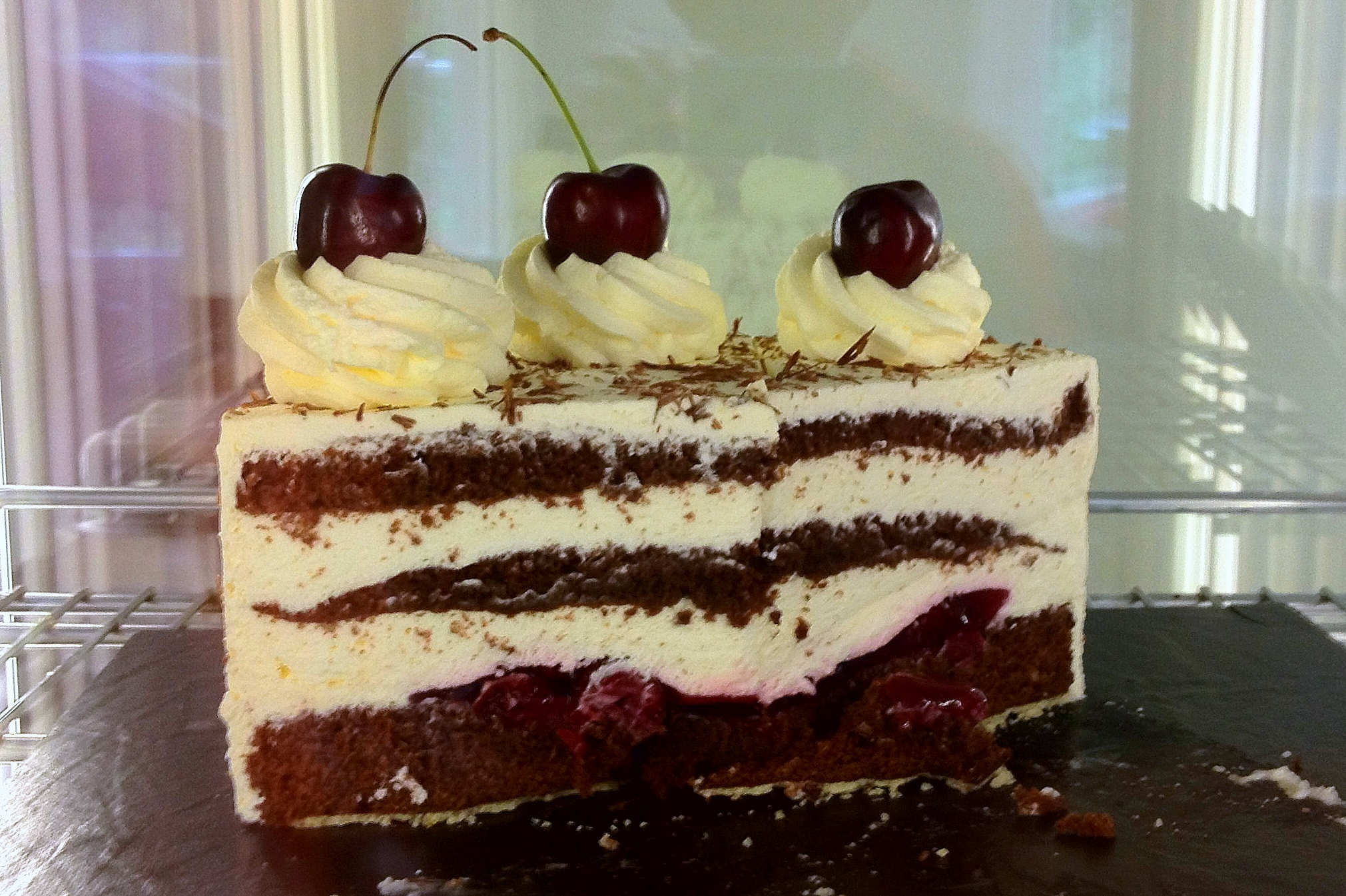 Black Forest cake in the Würzburg Residence, Germany